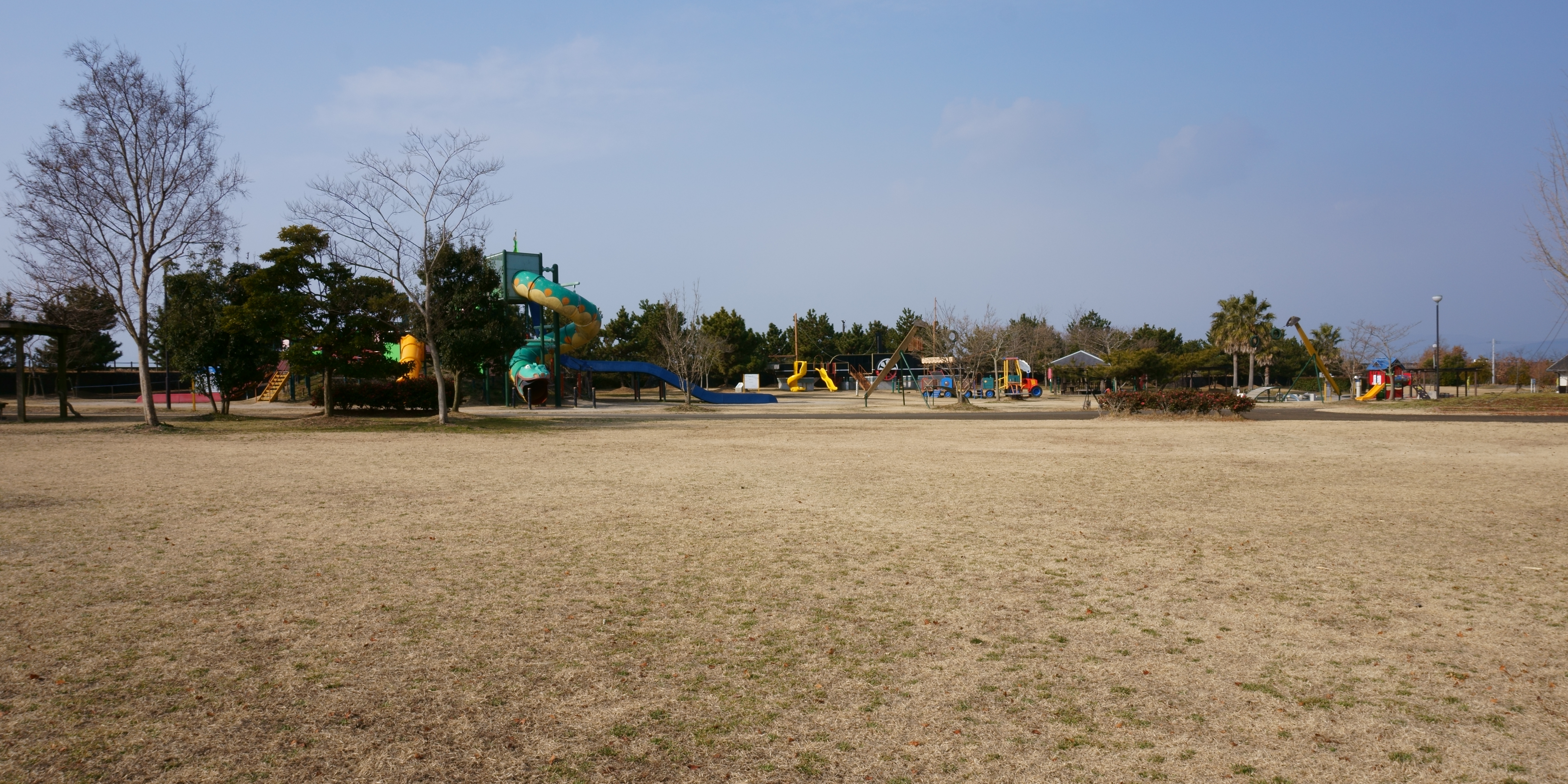 Field of Higata Yoka Park in Saga city, Saga prefecture, Japan.